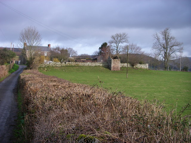 Pen-y-gaer Roman Fort Sitting on the Roman Road between Gobannium (Abergavenny/Y Fenni) and Cicucium (west of Brecon/Aberhonddu)this ancient monument site is now occupied by a farmstead. The southern edge of the former fortress is followed by the modern boundary wall atop a low bank. It also extends to the west (left) over the minor road.